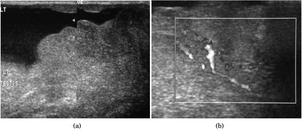 Scrotal ultrasonography of a rhabdomyosarcoma.